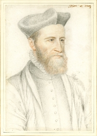 Sebastien de l'Aubespine (d. 1582)